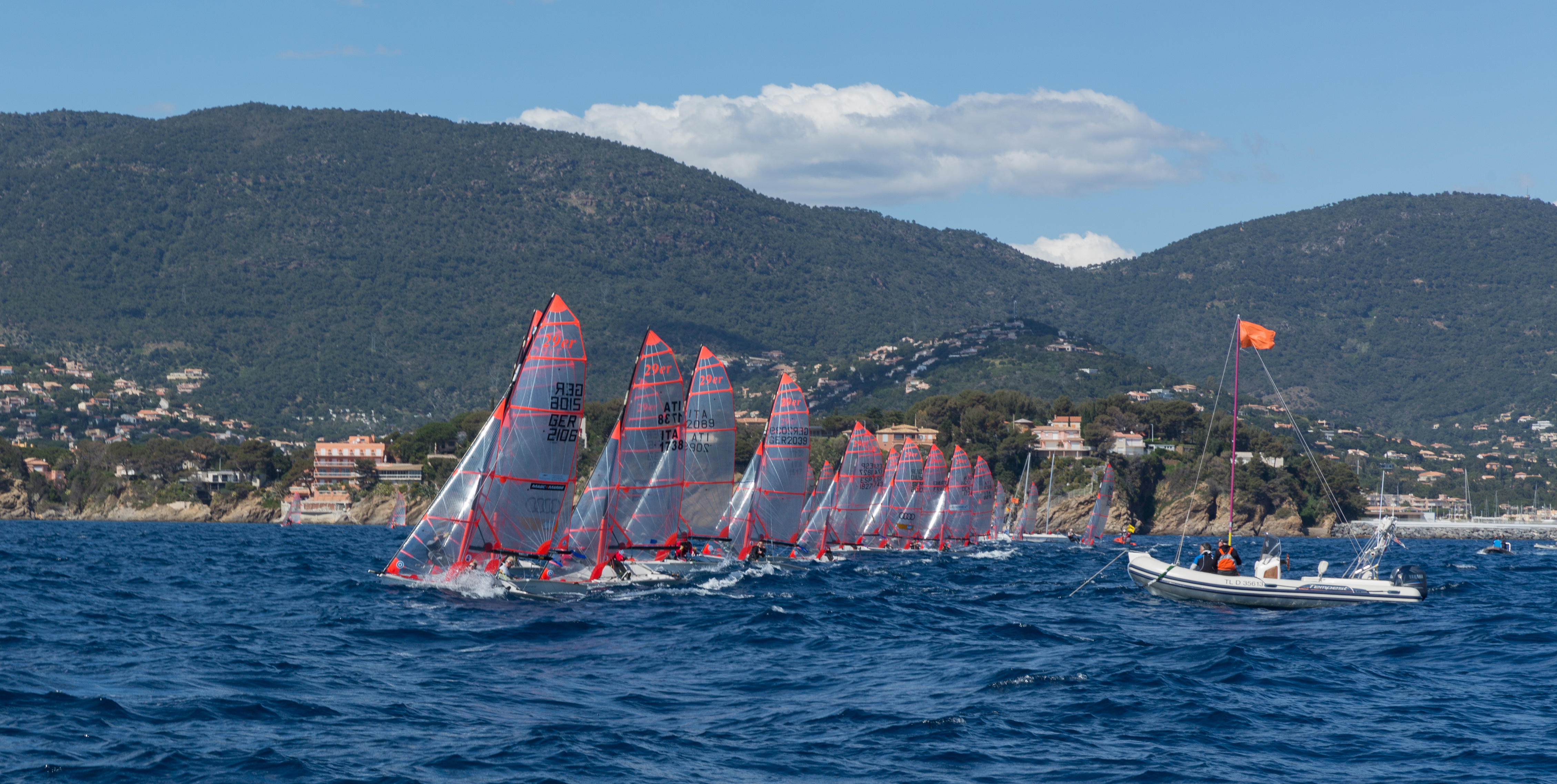 29er start at Cavalaire-sur-Mer